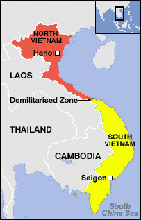 Vietnan after Geneve Accordings in 1954